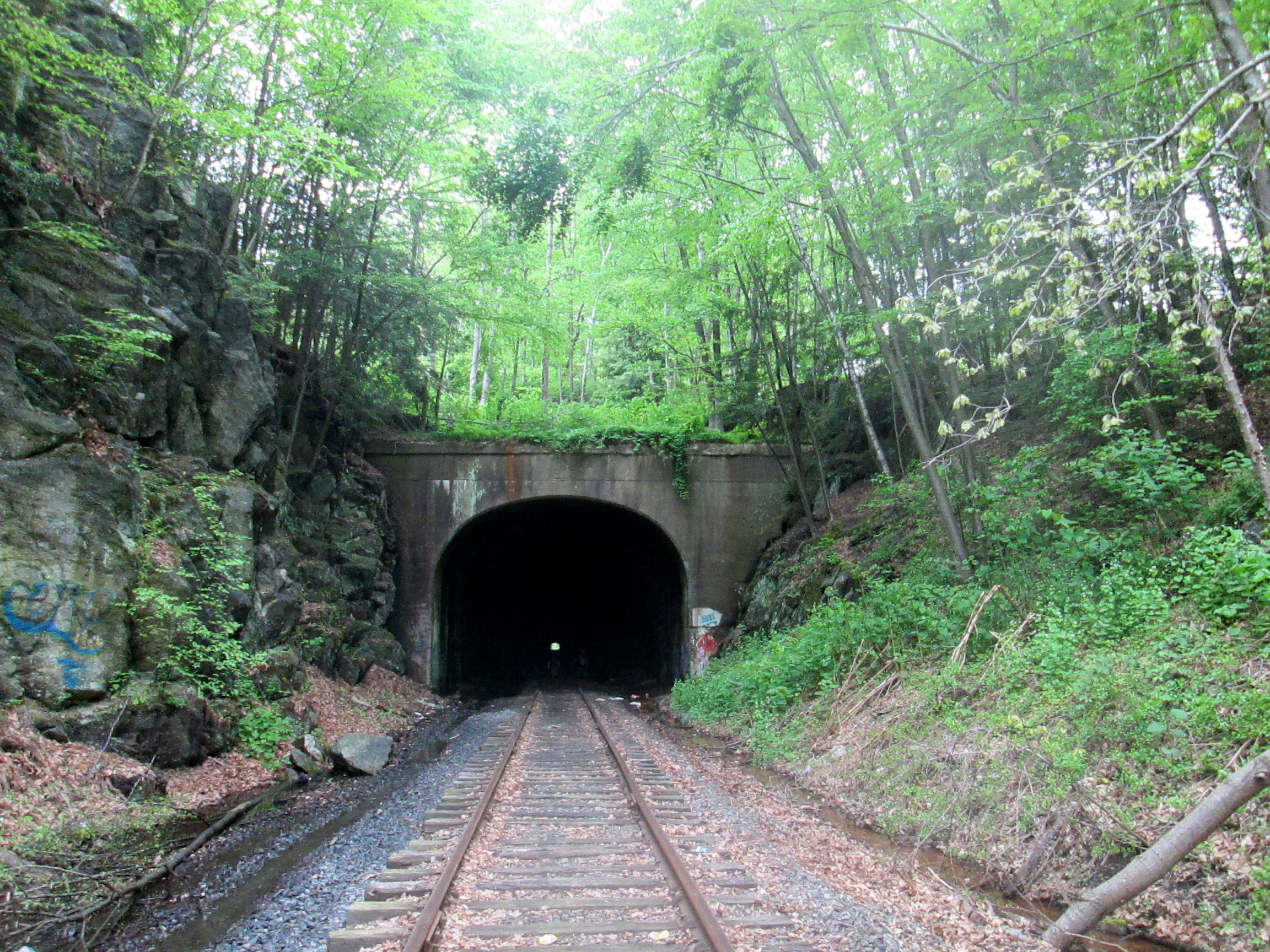 Pequabuck Tunnel, west portal, located in Plymouth, Connecticut